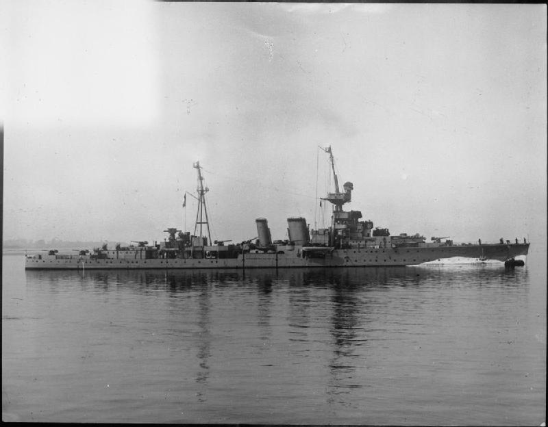 HMS Coventry Underway coastal waters.